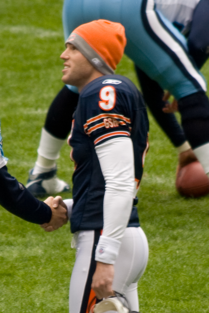 Robbie Gould of the Chicago Bears